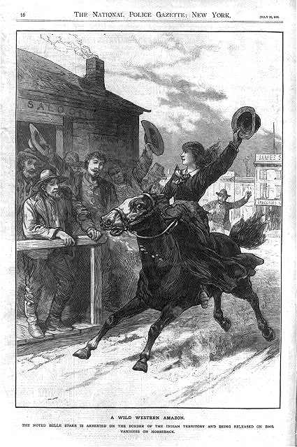 Belle Starr, American female outlaw. The caption reads, "A wild western amazon. The noted Belle Starr is arrested on the border of Indian Territory and being released on bail vanishes on horseback." Wood engraving in The National Police Gazette (1886 May 22), p. 16.